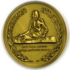 Gandhi Peace Award Medallion - front side - for use as main illustration in Gandhi Peace Award article. Three-dimensional work.